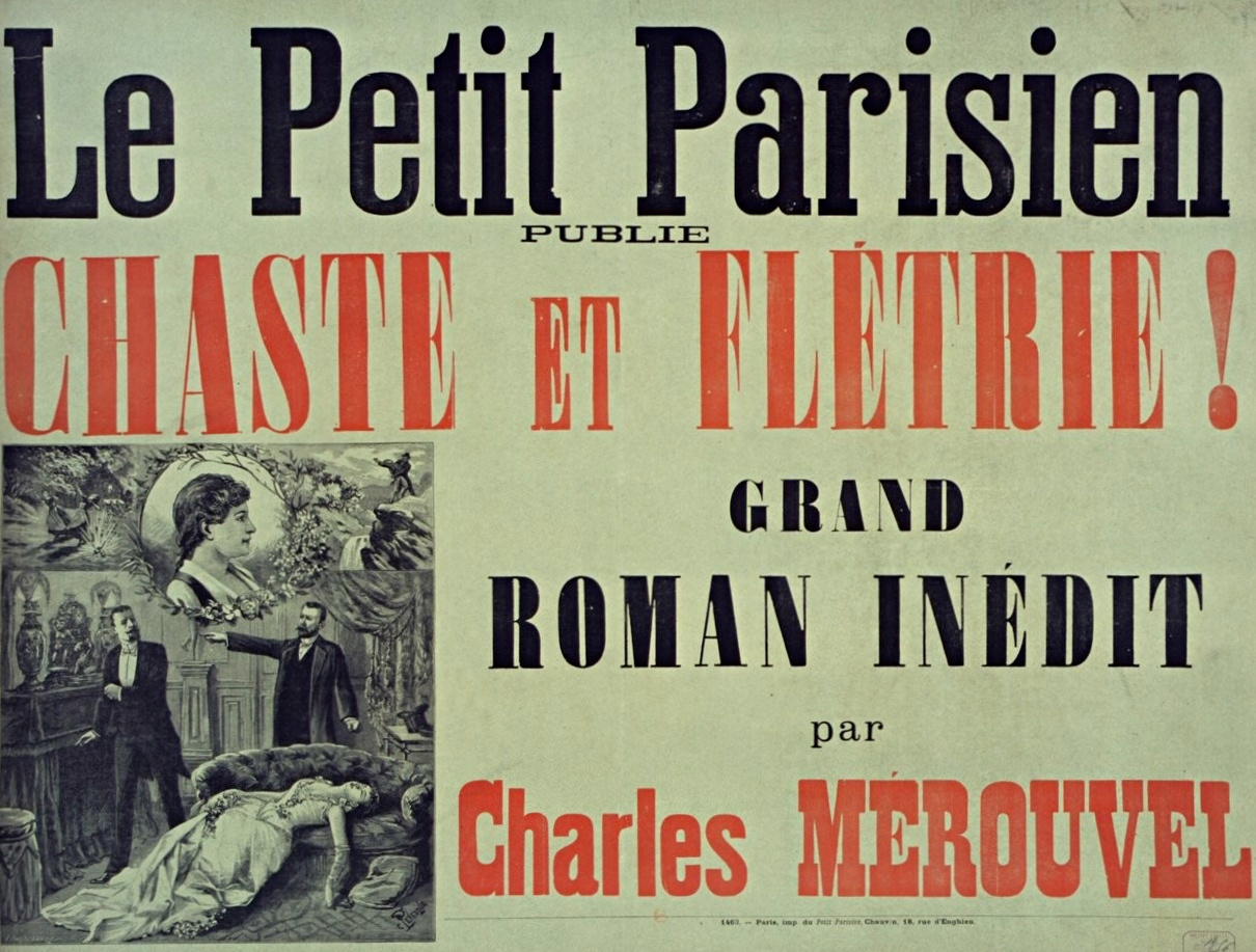 chaste